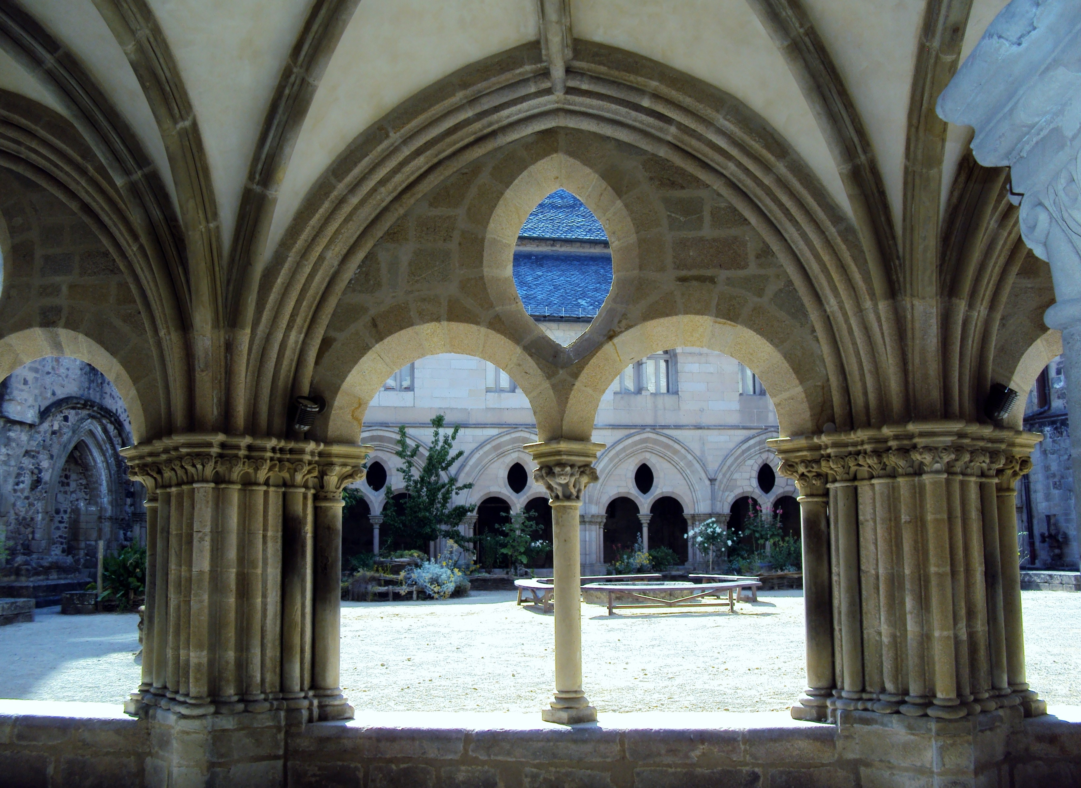 The garden of the musée du Cloître in Tulle, Corrèze, France.